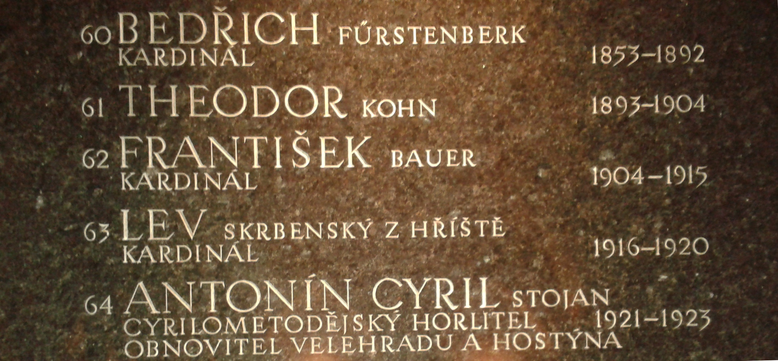 The name of Theodor Kohn in the list of archbishops of Olomouc (St. Wenceslas Cathedral, Olomouc, Czech republic)